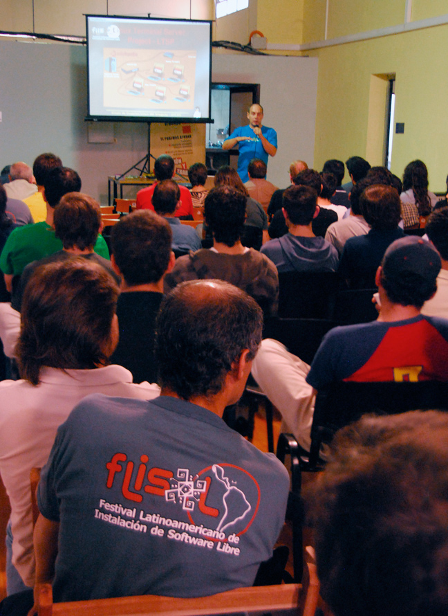 FLISOL 2011 in the city of Paysandu in Uruguay.